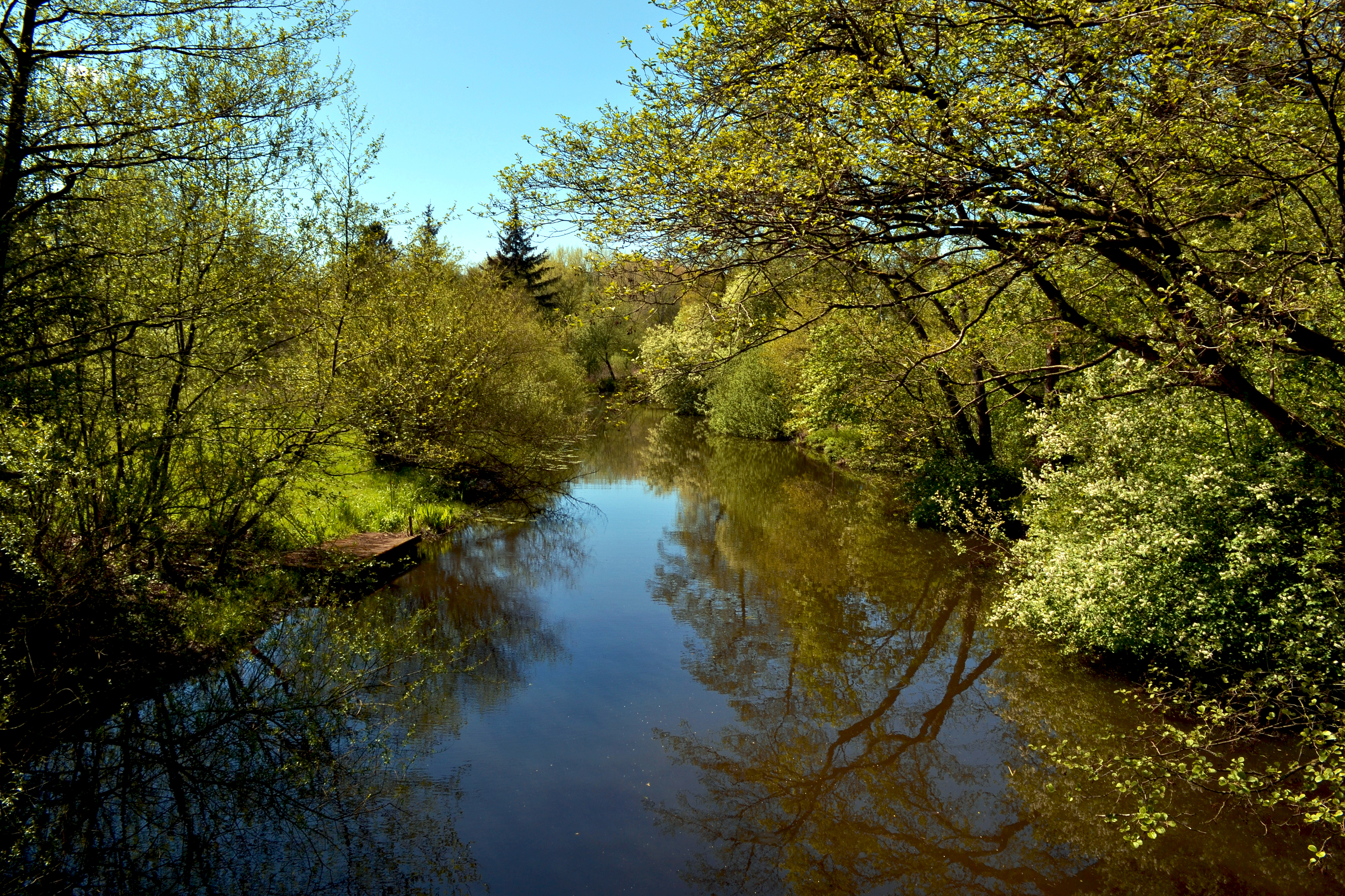 This image shows the Bever, an approximately 29 km long tributary of the Oste, which by Bevern, United Aspe, Brest, Farven, Malstedt and Plönjeshausen flows.